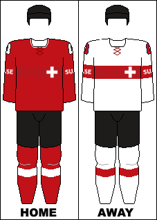 The home and away jerseys of the Swiss national ice hockey team with the Swiss cross in the chest, as used at the 2014 Winter Olympics in Sochi.